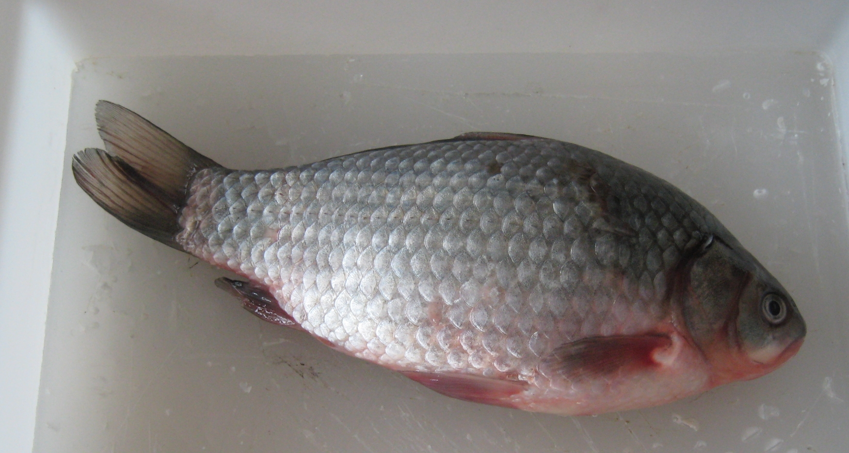 A wild goldfish before dissectioned.